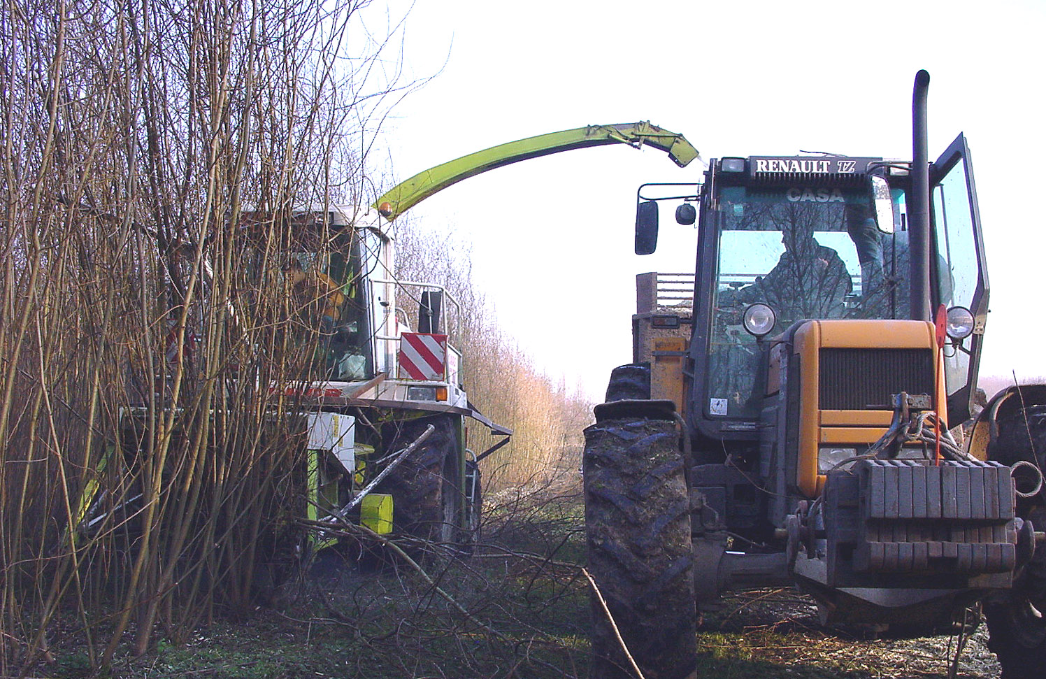 Short rotation coppice willow (clones), irrigated by water from the purification plant of Villeneuve d'Ascq (town, in northern France) for final purification of water (nitrates, phosphates). This coppice was used to produce wood chips to fuel a wood boiler.